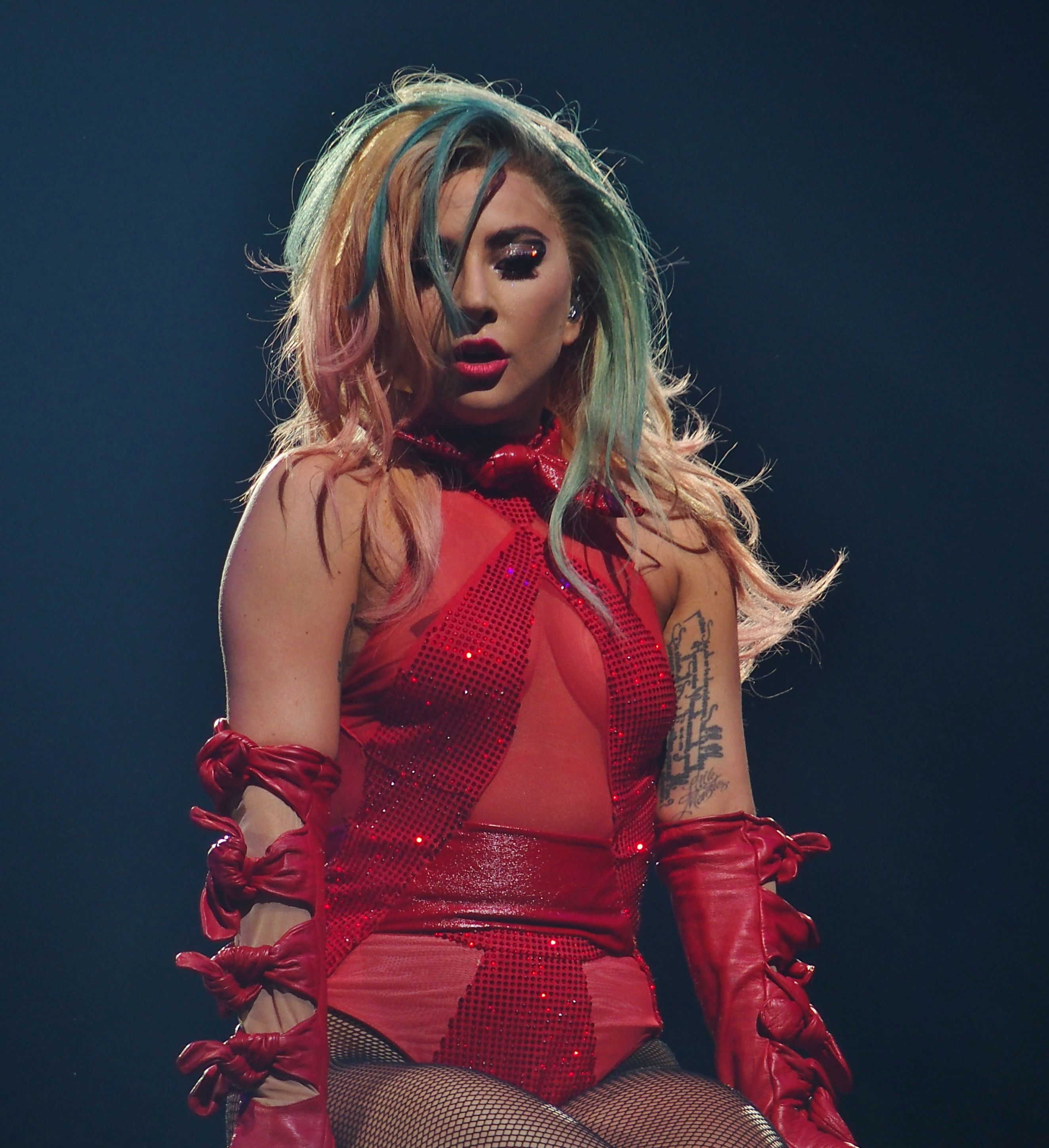 Lady Gaga, Joanne World Tour, Bell Center, Montréal, 3 November 2017 (71) Lady Gaga performing on the Joanne World Tour, in Montréal